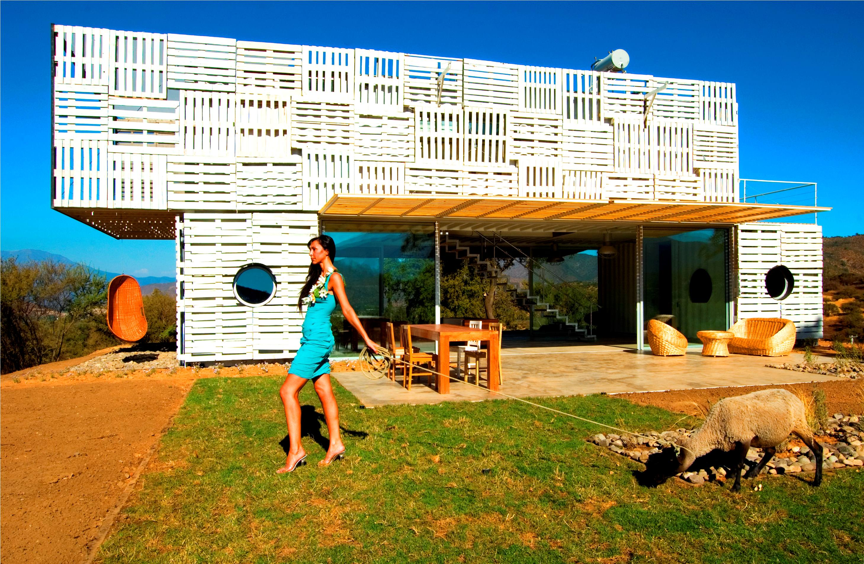 The Infiniski Manifesto house in Curacavi, Chili. The sustainable house, surface area of 160 m2, is made by using three maritime containers. (Infiniski is a construction company specialized in building eco-friendly houses and buildings based on the use of recycled reused and non-polluting materials.)